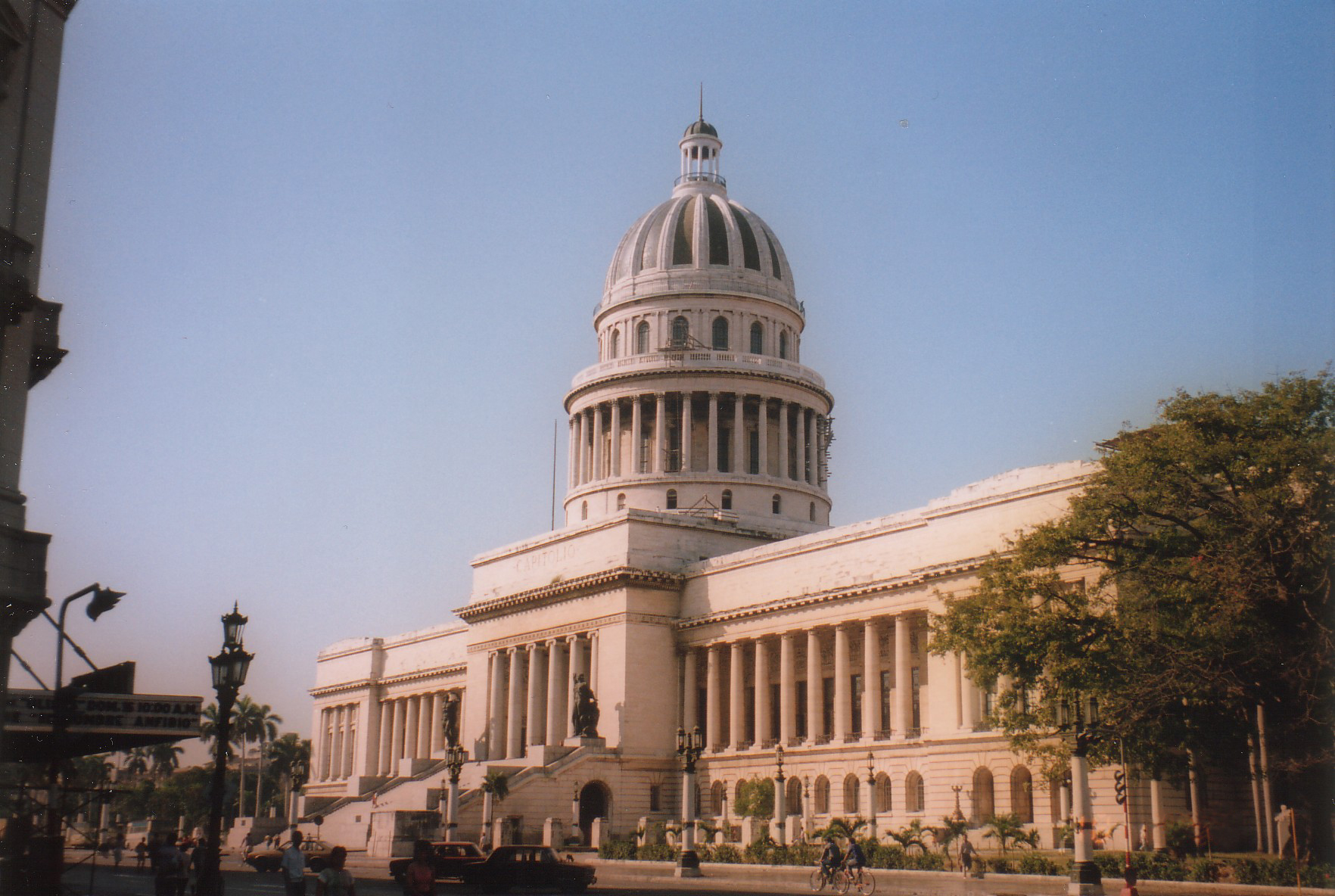 Author Giorces. Cuba - Havana, Capitolio.